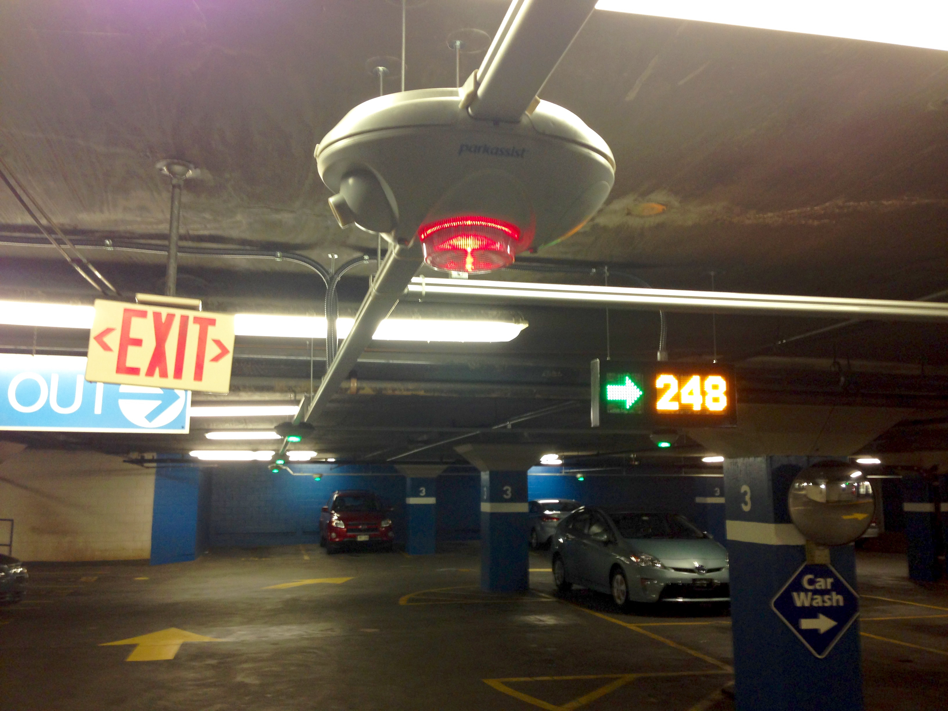 Components of parking guidance and information system: Sensors for vehicle detection, available space indicators and a guidance sign.